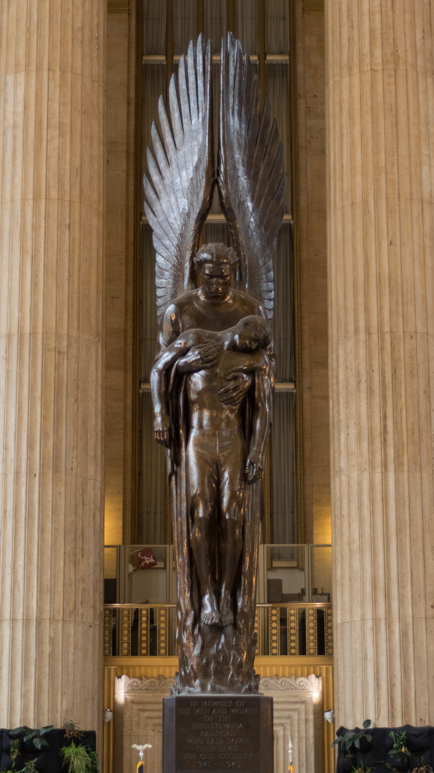 Angel of the Resurrection, the bronze sculpture featured in the Pennsylvania Railroad World War II Memorial.